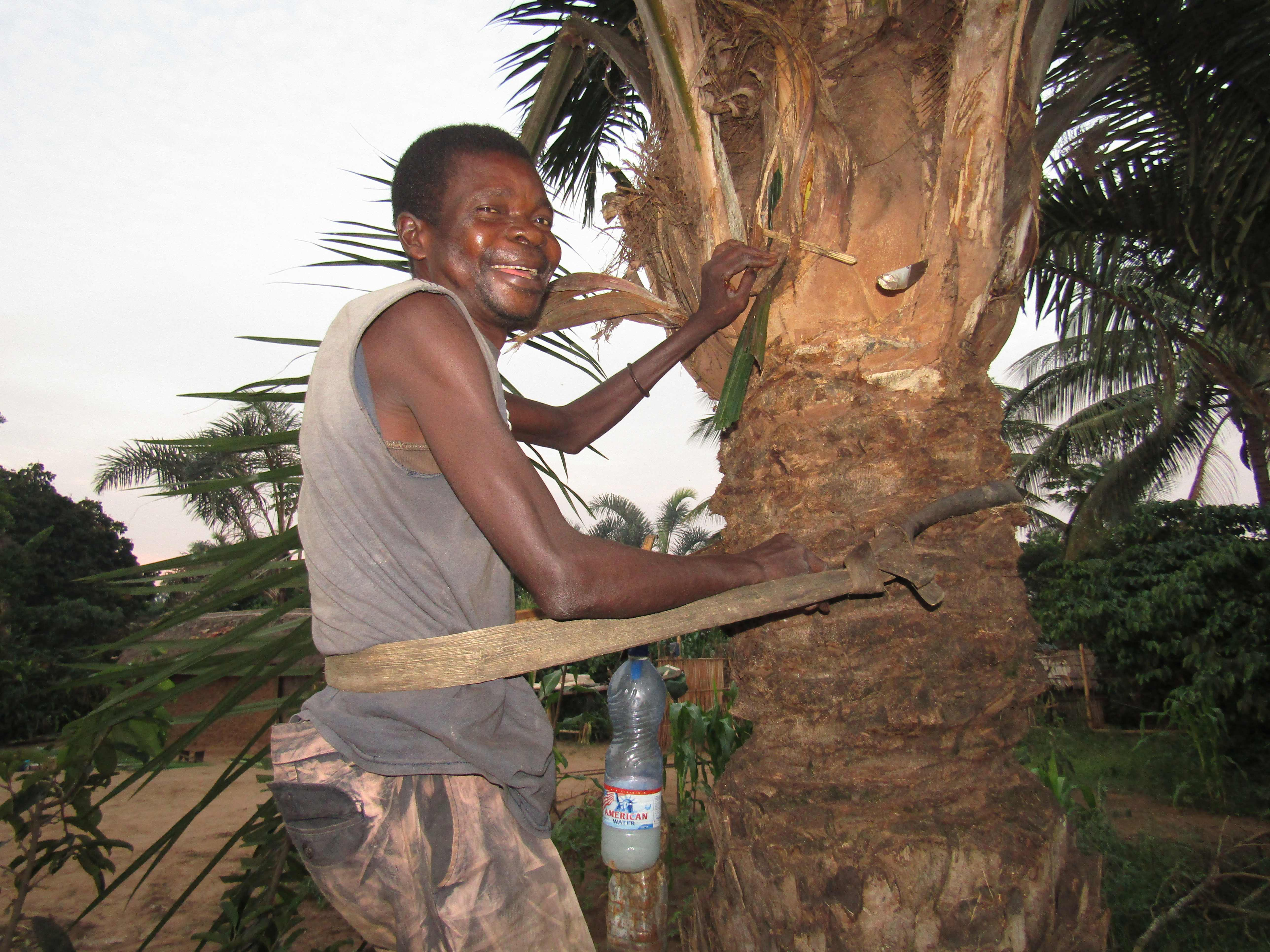 man climbing a palmtree Kikwit This is an image of "African people at work" from Democratic Republic of the Congo